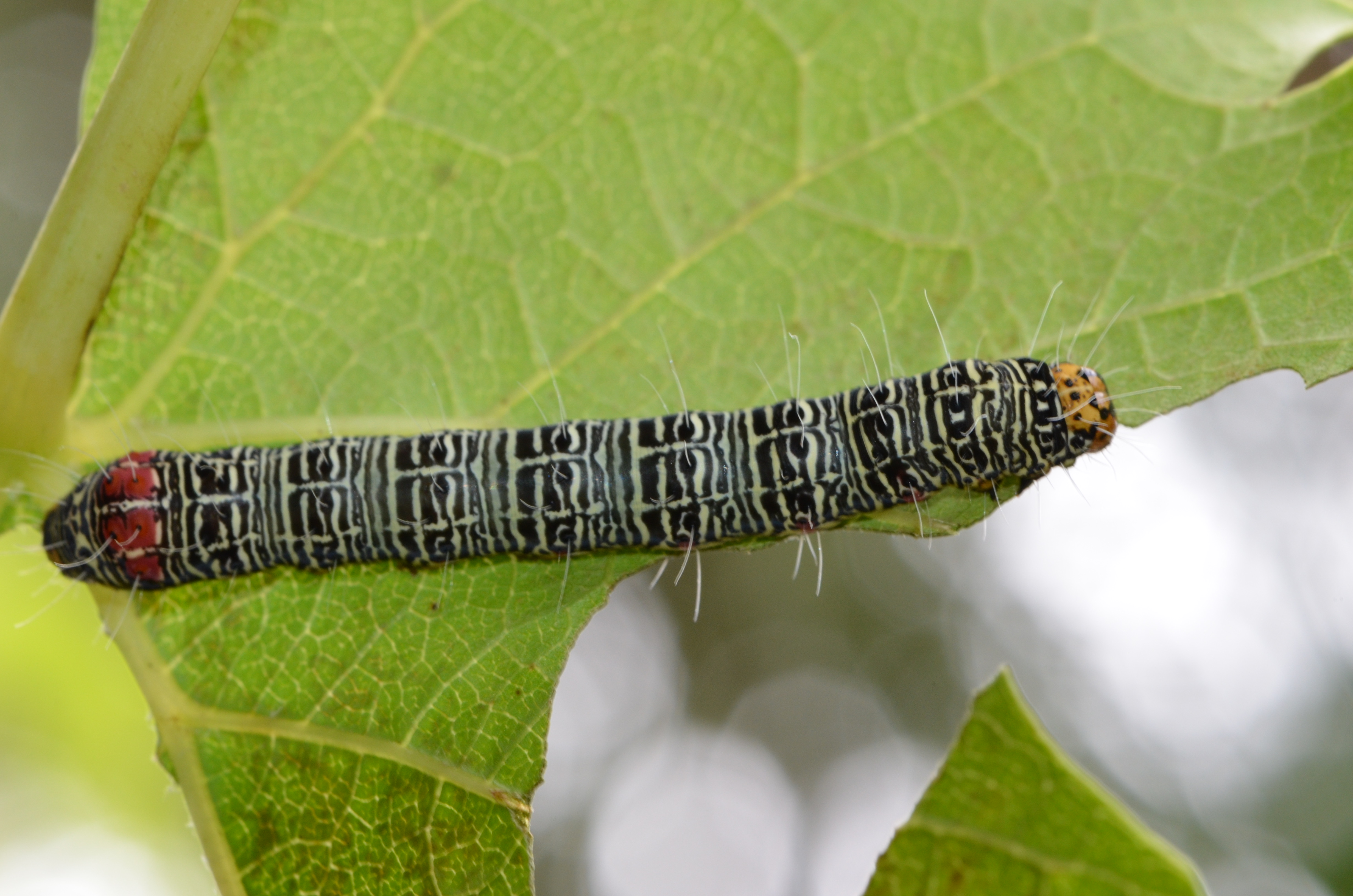 Australian grapevine moth caterpillar on a grape vine leaf